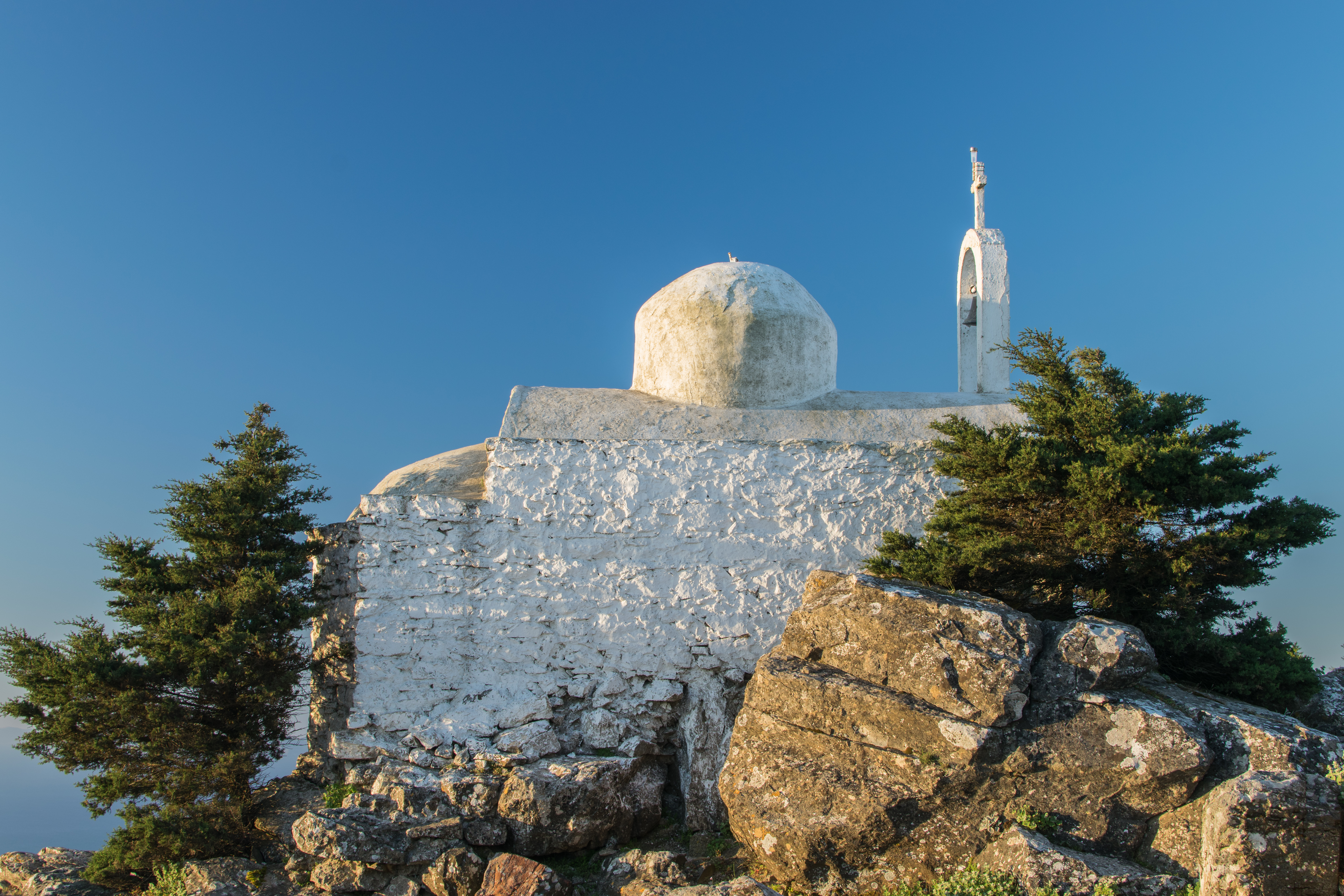 This is a photography of Natura 2000 protected area with ID GR4210008